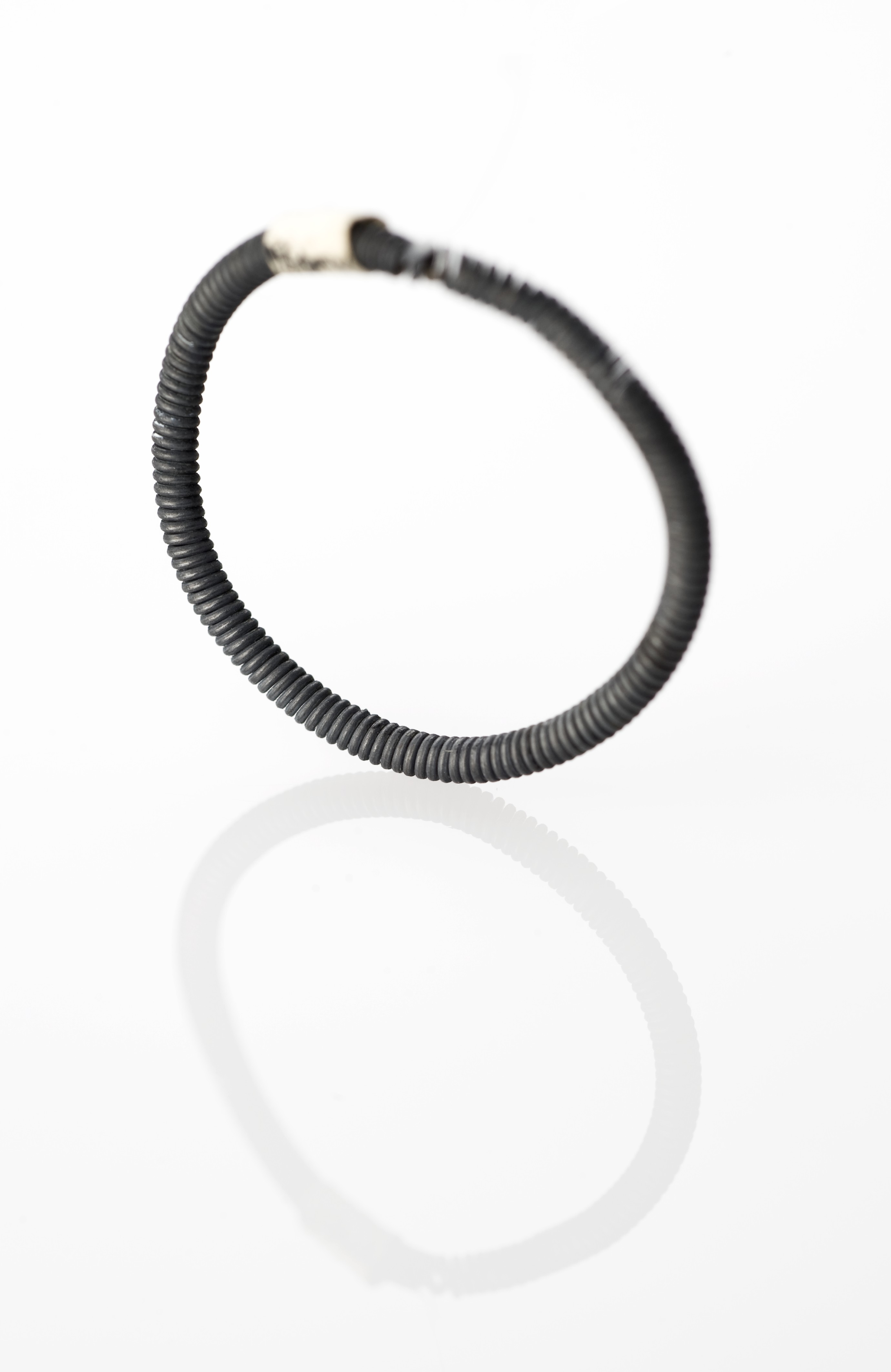 German gynaecologist Ernst Grafenberg (1881-1957) devised this intrauterine device (IUD) in the 1920s. The Grafenberg IUD was a popular contraceptive. Early examples were made of silkworm gut and silver wire. An IUD works after conception. It stops a newly fertilised embryo implanting and growing in the lining of the uterus. It was inserted into the uterus by a physician. It could be left in place for several years. maker: Unknown maker Place made: Europe Medical Photographic Library Keywords: intra-uterine device; Contraception